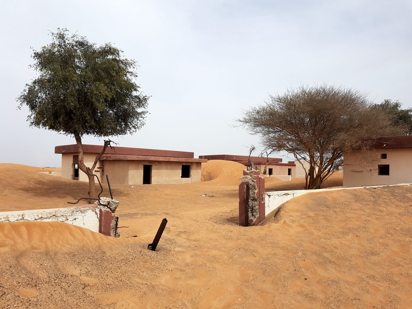 Group of abandoned houses and a mosque in the desert south of Madam town in Sharjah, UAE